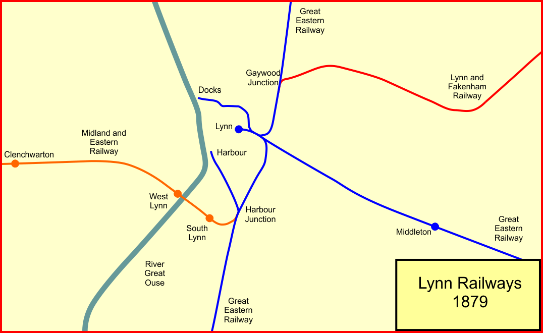 Railways near King's Lynn, England, in 1879